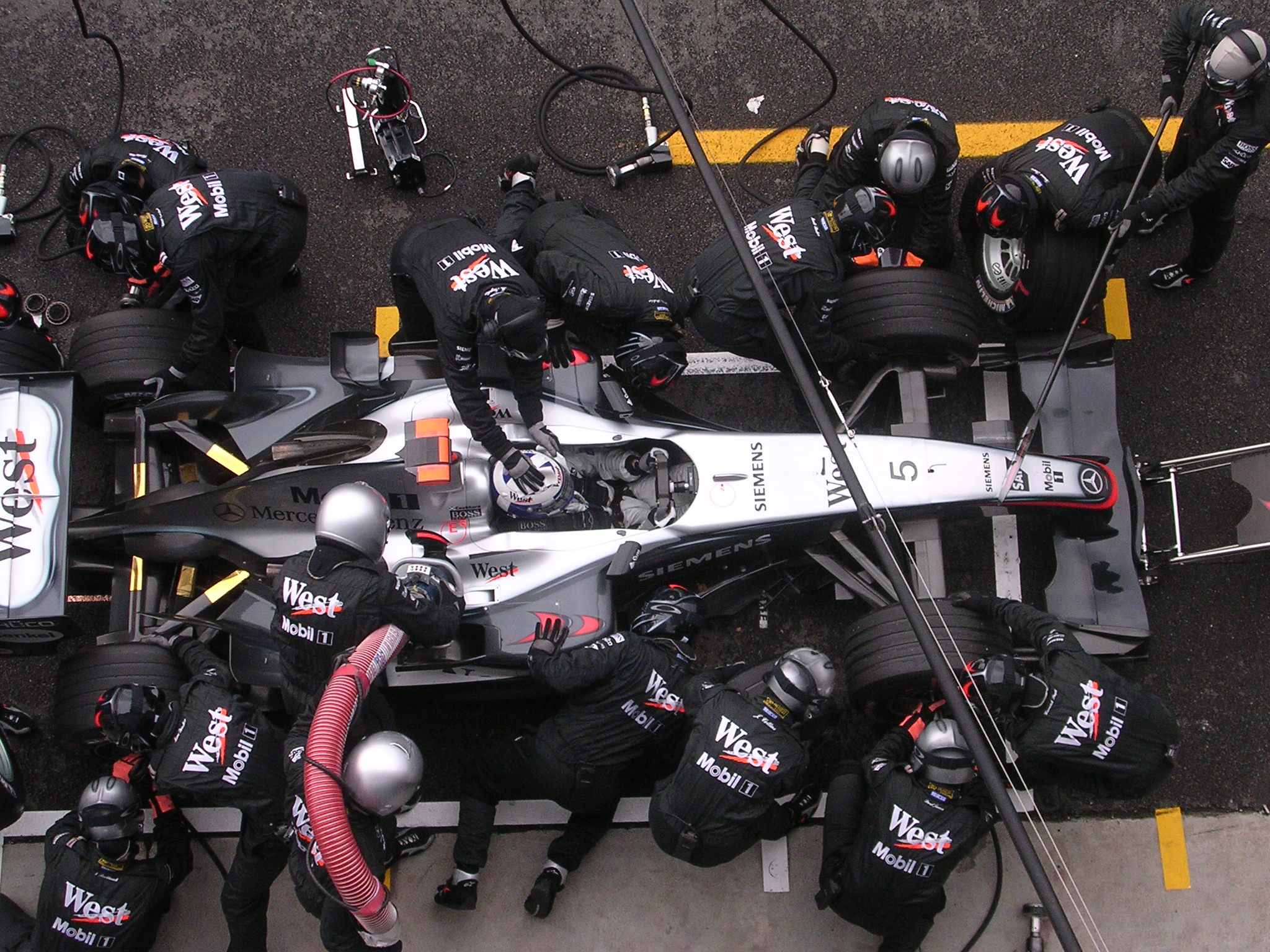 A pit stop at the Autrodomo Nazionale of Monza (Italy), during the 2004 Italian Grand Prix, September 12, 2004. The team's pit crew is refuelling the car (the David Coulthard's McLaren MP4-19) and changing tires.